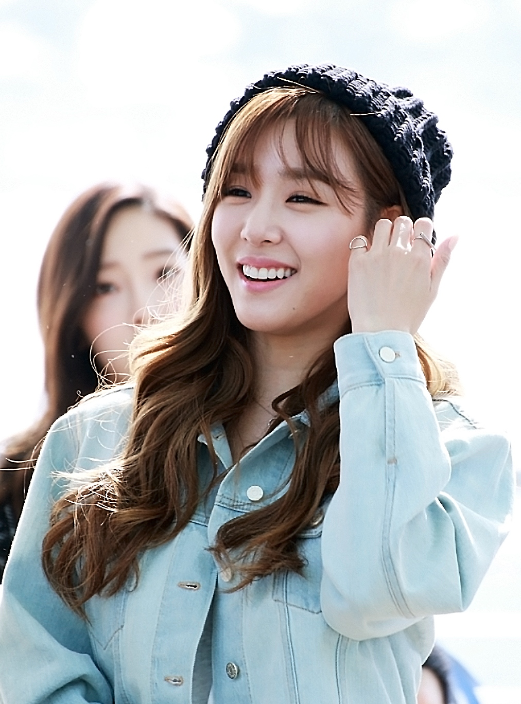 Tiffany Hwang at Incheon International Airport on May 20, 2015.Português do Brasil: Tiffany Hwang no Aeroporto Internacional de Incheon em 20 de maio de 2015.